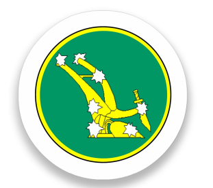 Cairde